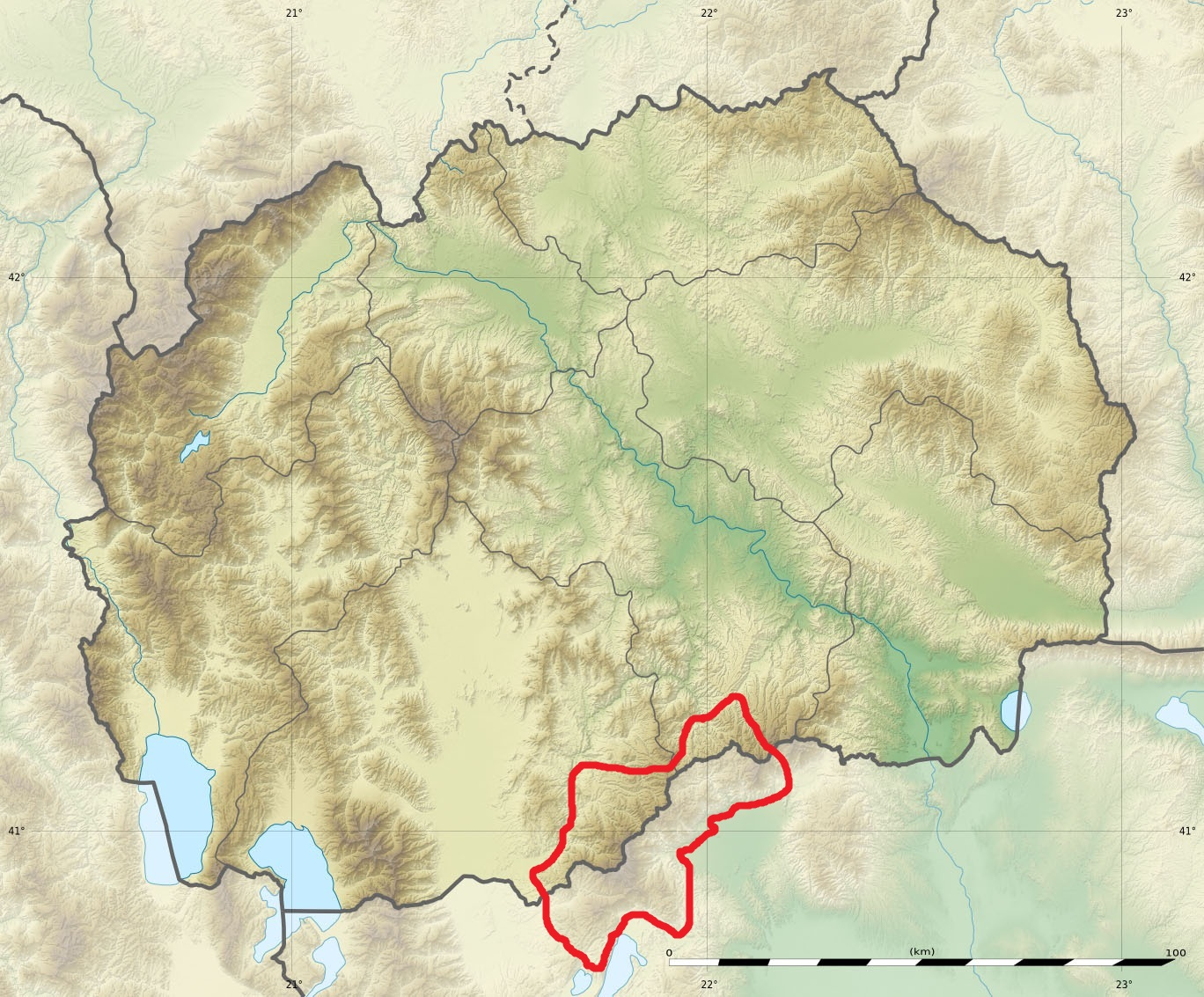 Physical map of the Voras Mountains in the Republic of Macedonia.